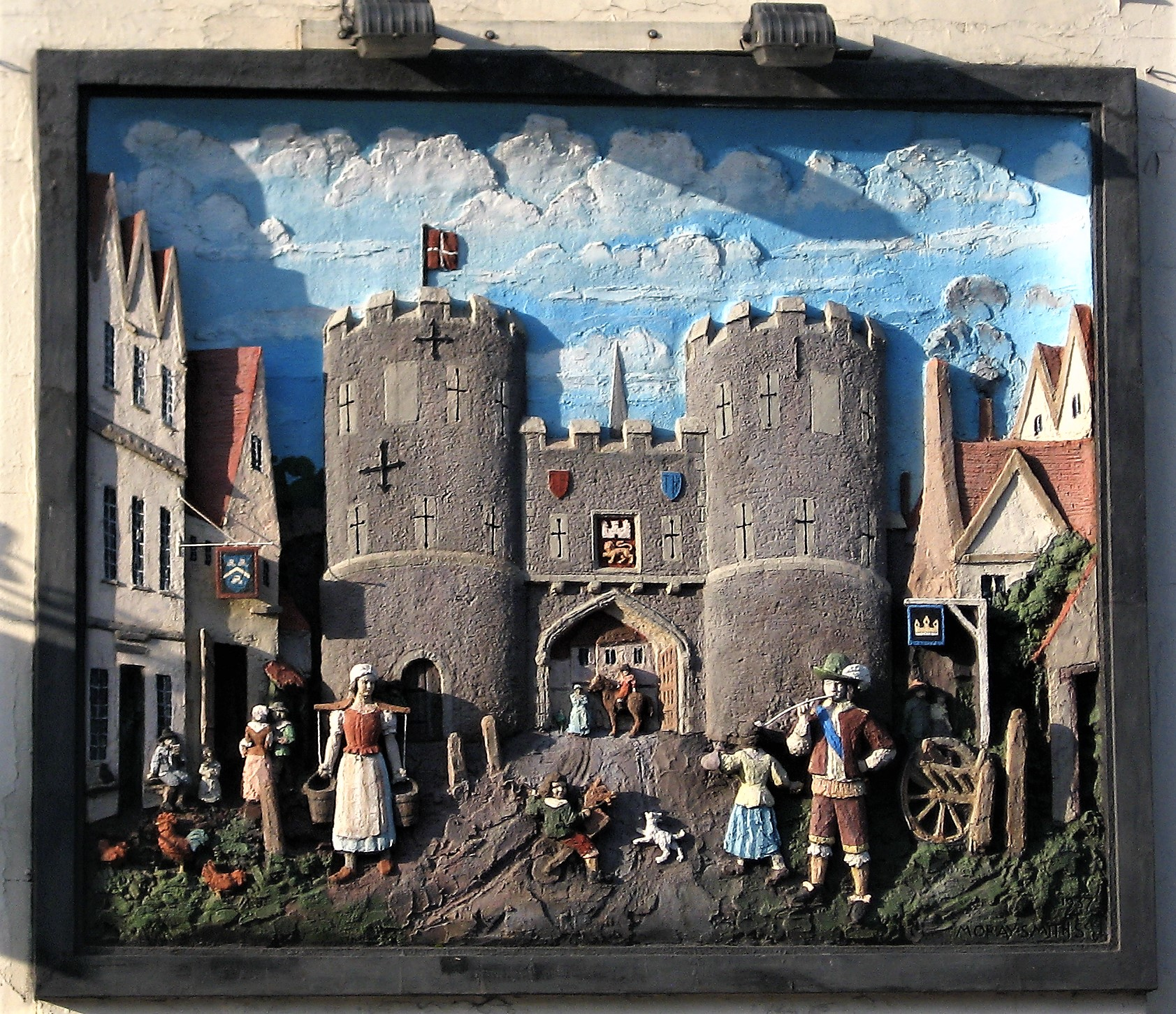 A mural by John Moray-Smith of Needham Gate, St. Stephen's, Norwich, The mural is to be found on the outside wall of the Coachmakers Arms pub in Norwich. It is based on an etching by Henry Ninham.